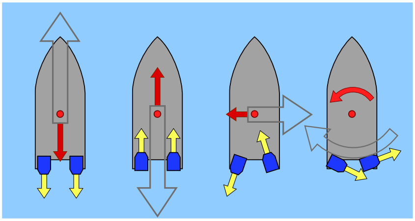 Propulsion by waterjet